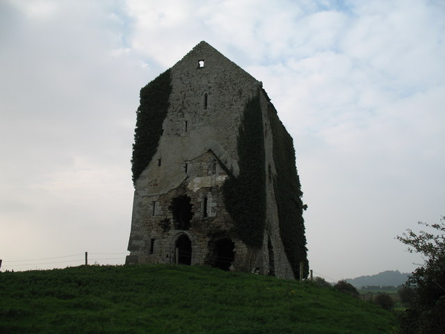 Rossmanagher Castle To get to this castle you need to drive down a narrow laneway and then cross 2 fields.The castle is then surrounded by a small barbed wire fence.Inside the castle there are 3 floors.The spiral staircase only rises to the 1st floor and then 3 more steps rise to the 2nd floor.On the 2nd floor is a small passage which leads to the toilet.